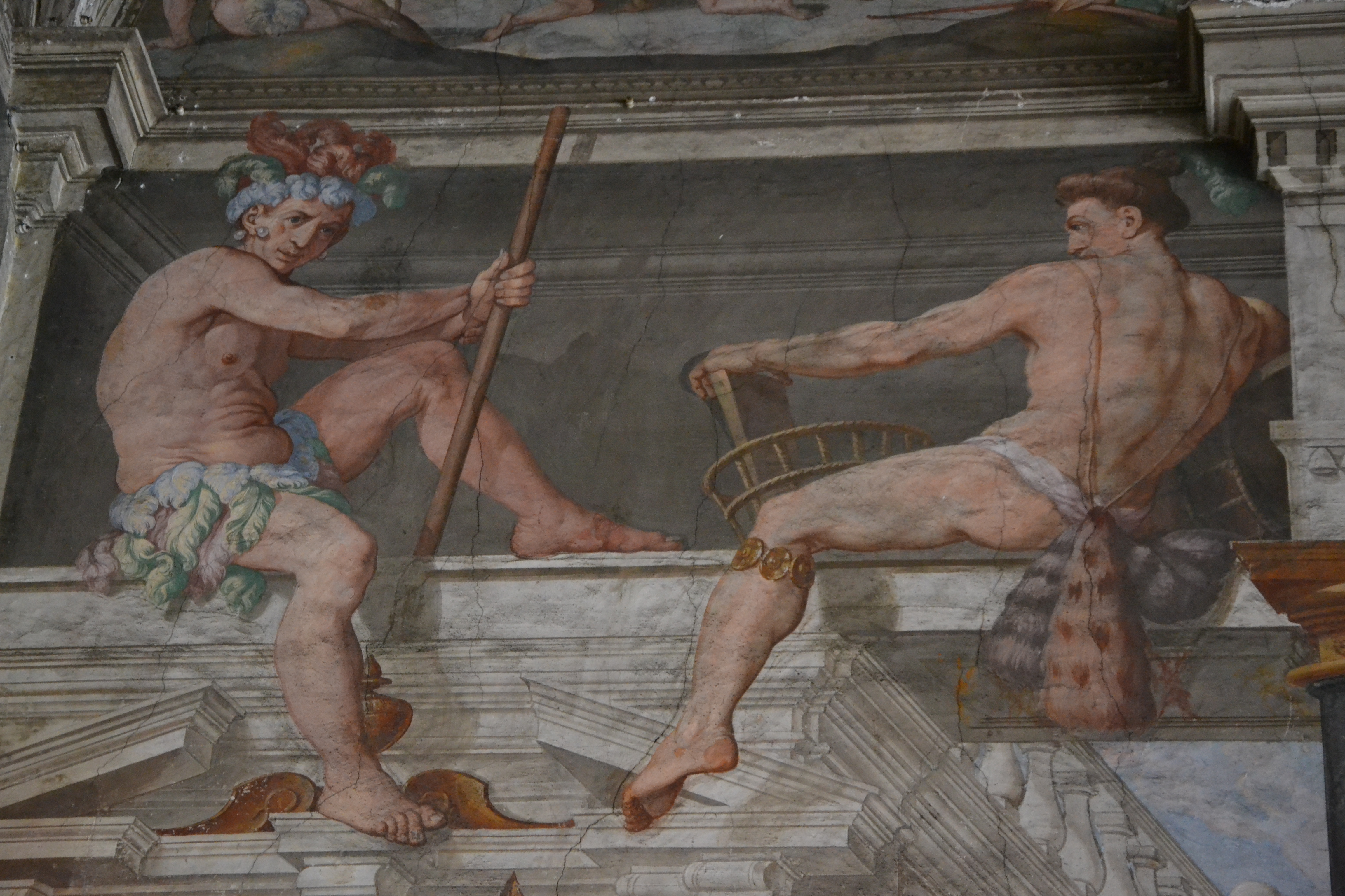 Palazzo Belimbau - Frescos by Lazzaro Tavarone, XVII century